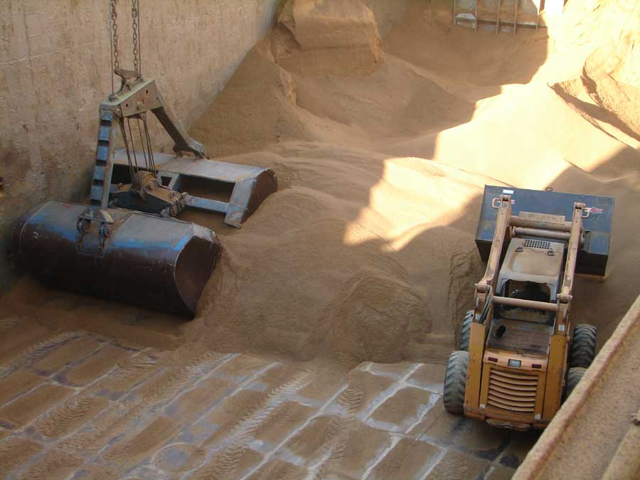 The general cargo ship Velox (85.75 m, 3,502 DWT) unloading rapeseed maybe soybeans in Brest.